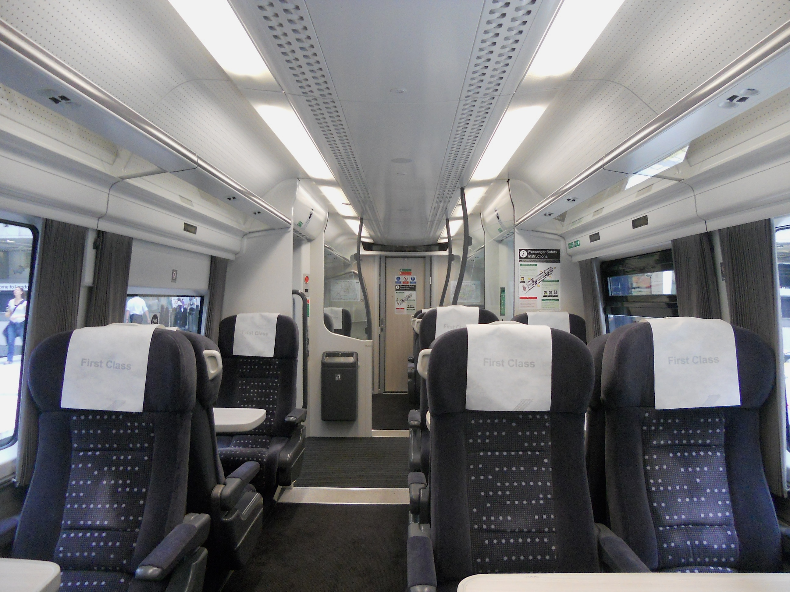 The interior of a First Class cabin from a National Express Class 379